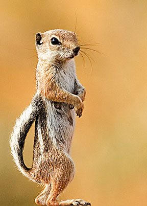 Utahcamera: "Taken by myself in Southern Utah 2005"